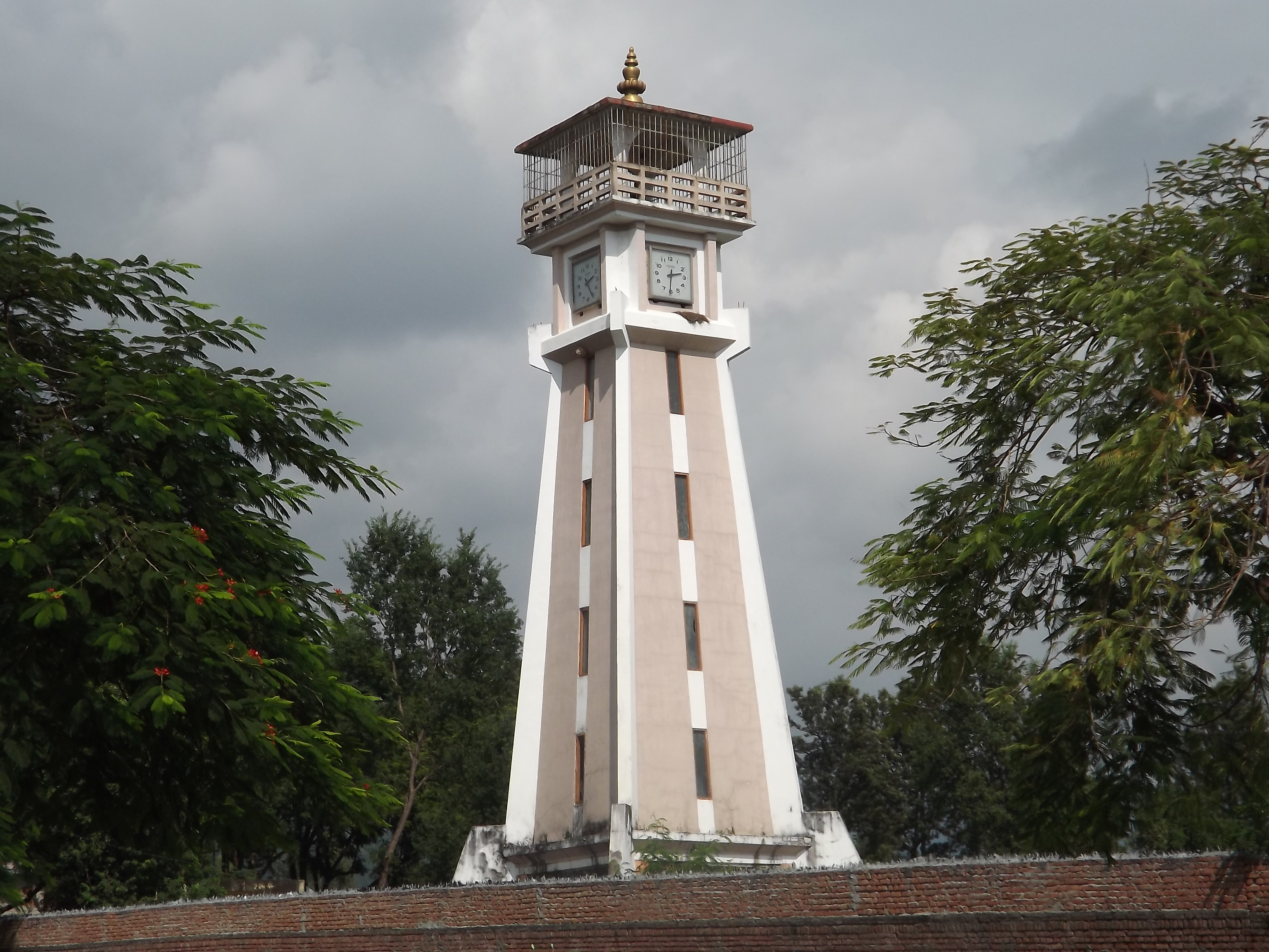 A bell tower in Surkhet District photo taken By Suresh Ghimire.